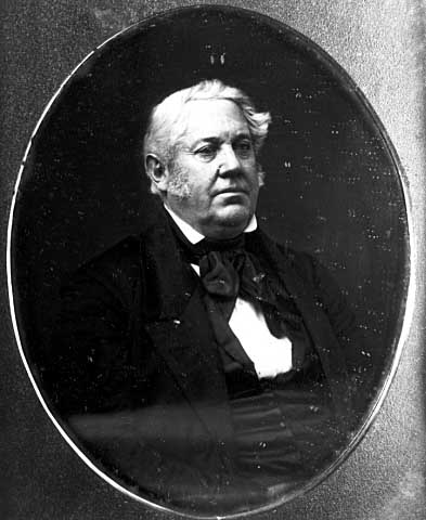 Michael H. Jenks, described in file as "father of Anna Jenks Ramsey."